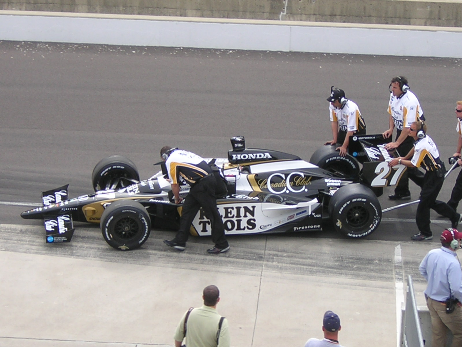 Andretti Green Racing's #27 car driven by Dario Franchitti being pushed up to qualify for the 2006 Indianapolis 500